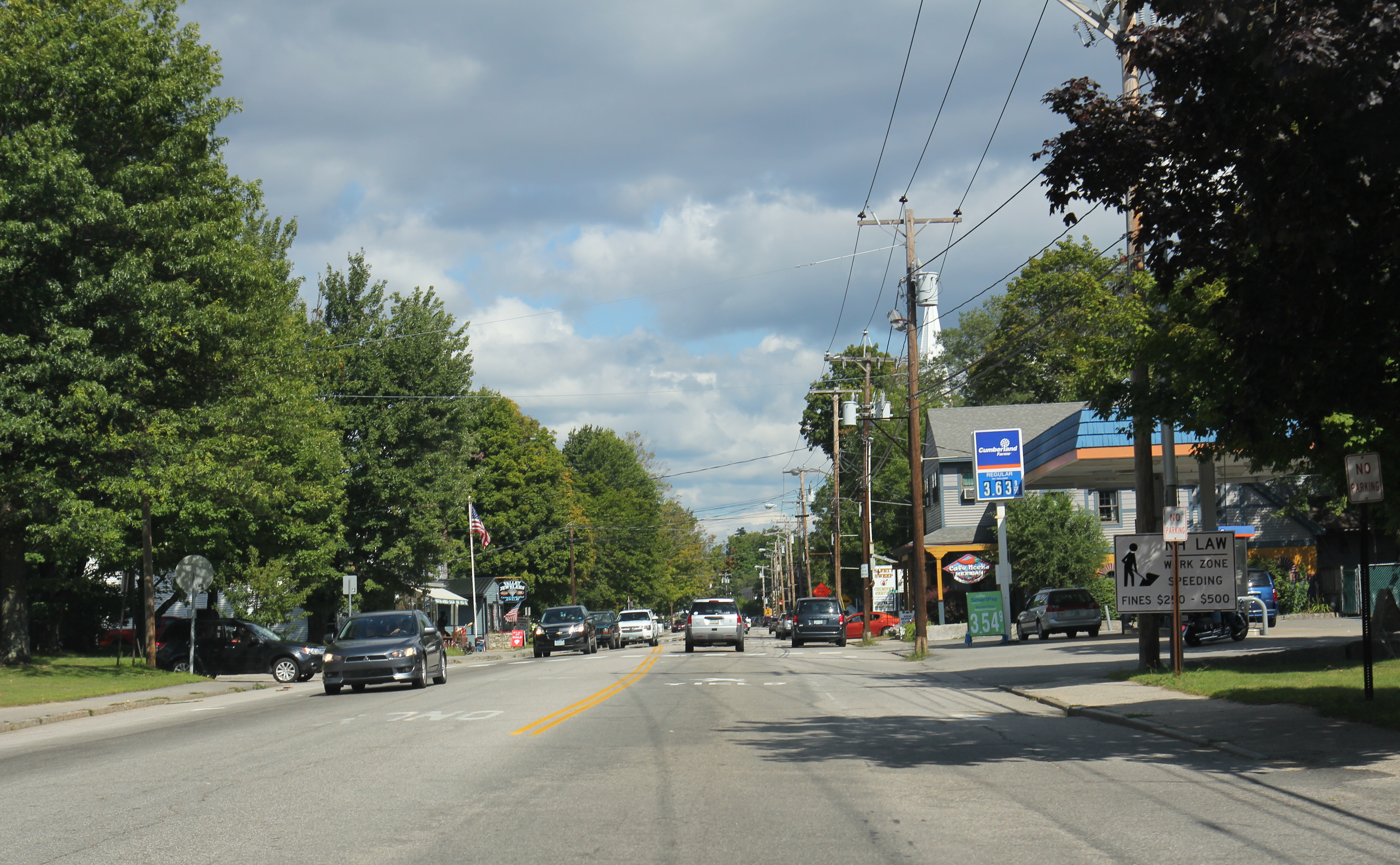 Conway on NH Highway 112